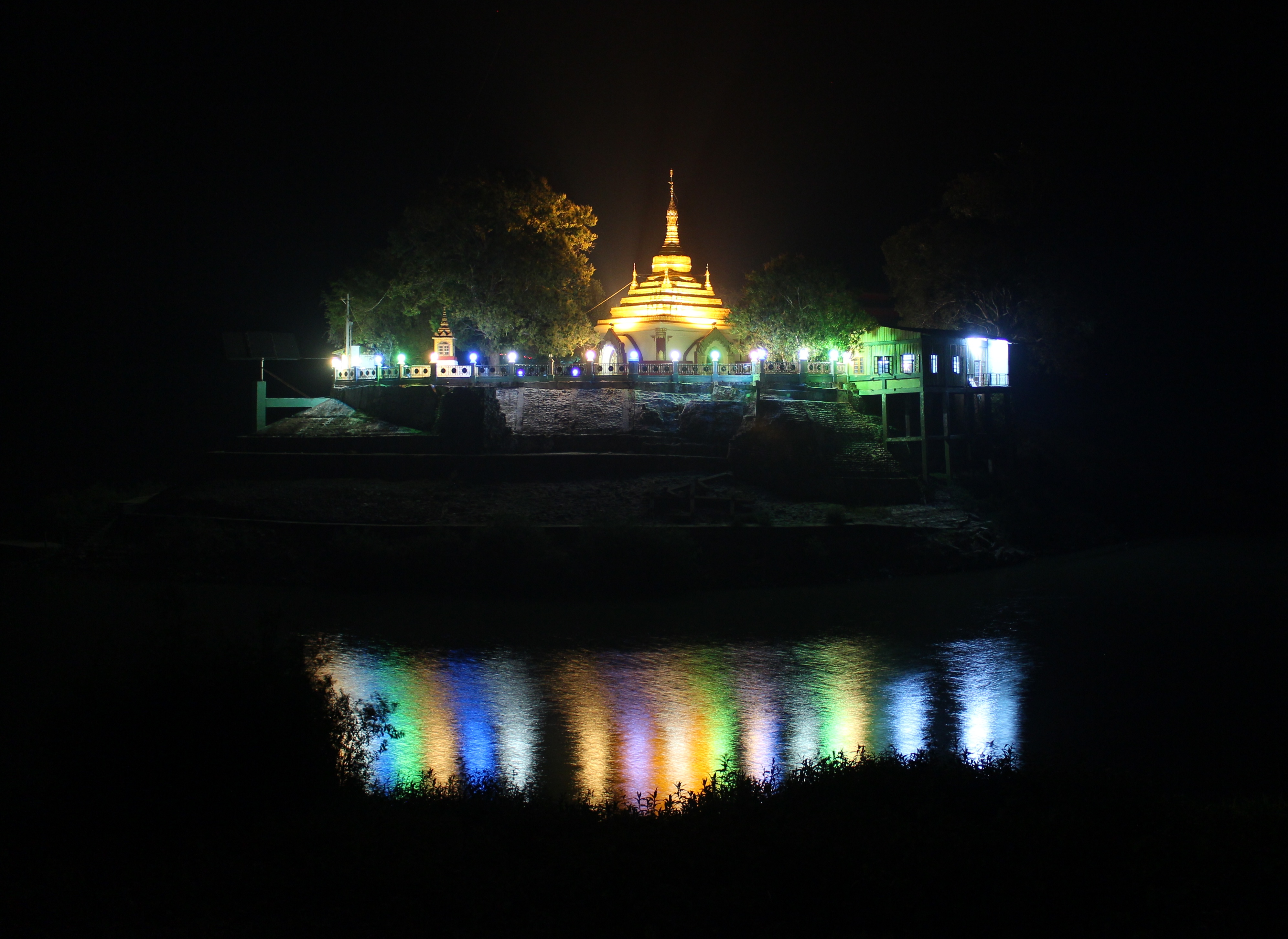 Night View of Anyar Thihataw Pagoda